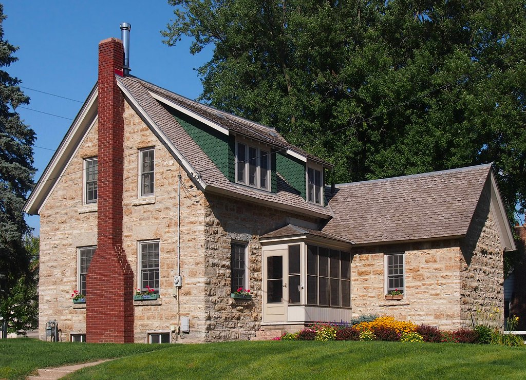 Thomas and Bridget Shanahan McMahon House, 603 Division St E, Faribault, Minnesota, USA. Viewed from the southwest.